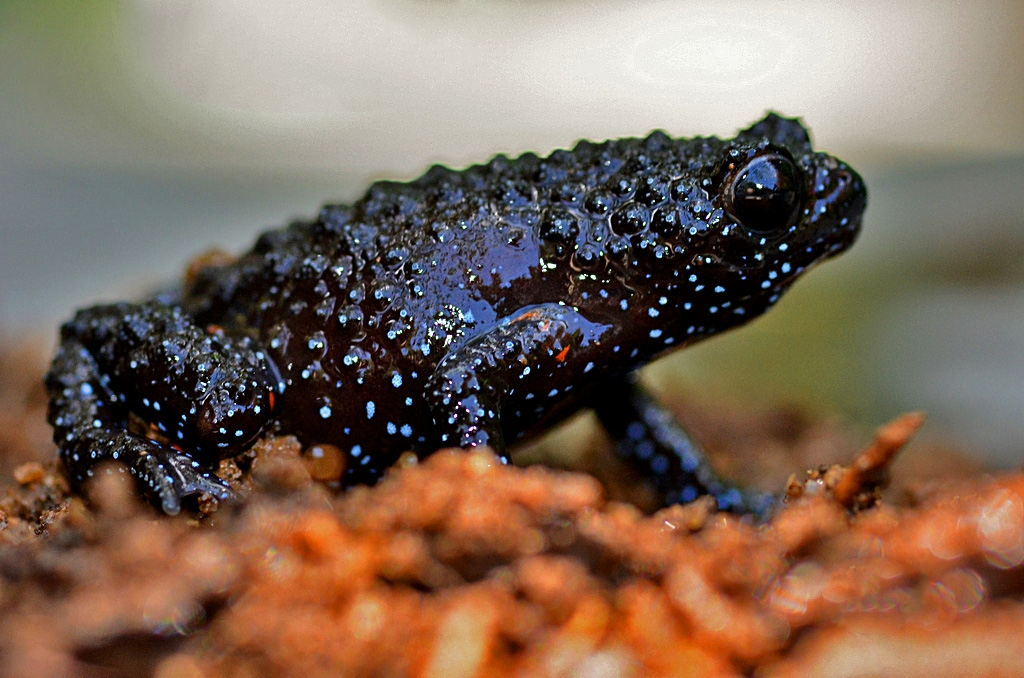 Malabar black narrow-mouthed Frog